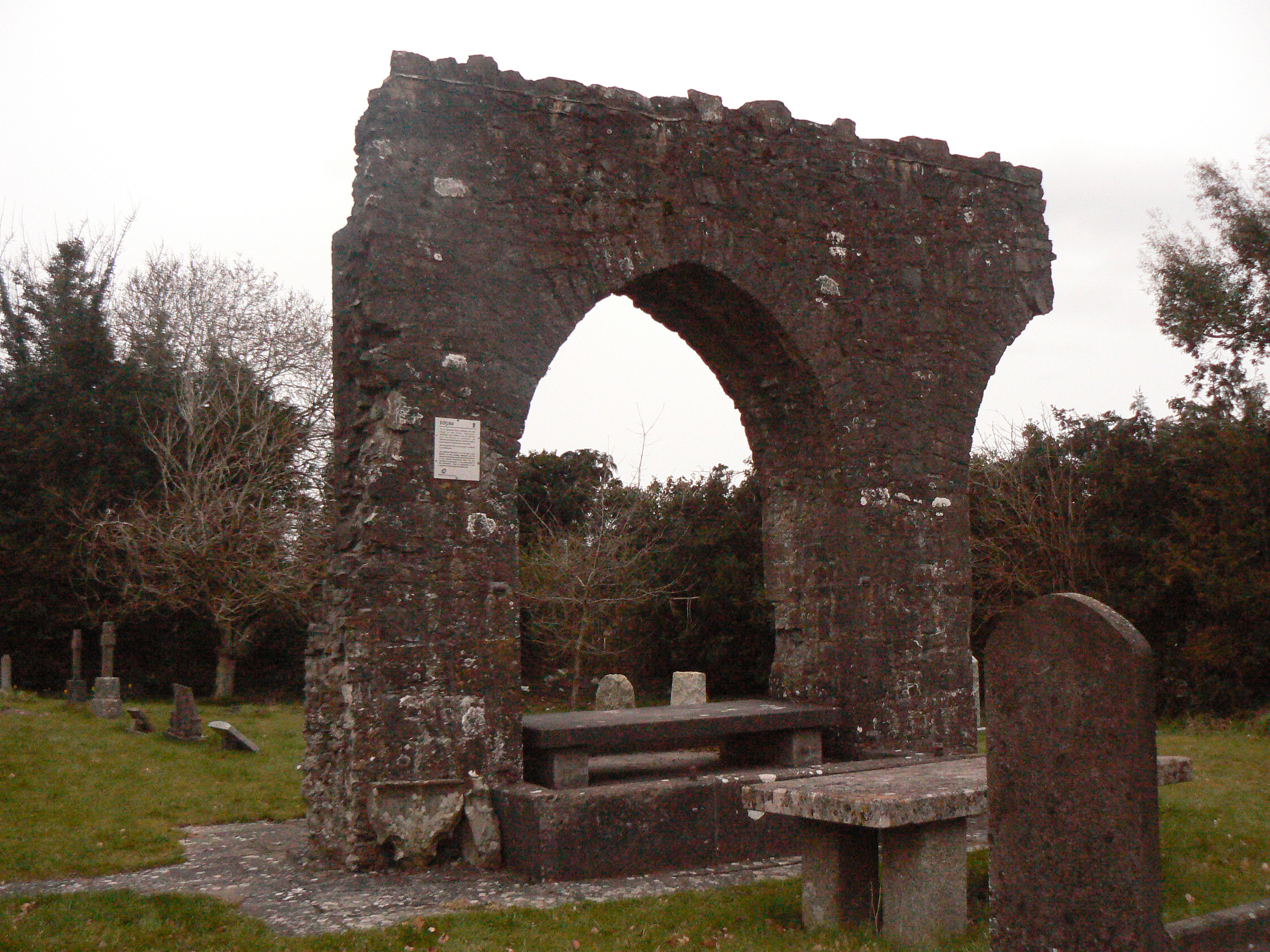 Remains of the monastic site of Saint Seachnall. Domhnach Seachnaill, Seachnall's Church, is the name in ecclesiastical sources for the town in Irish, while Dún Seachlainn appears in secular sources.